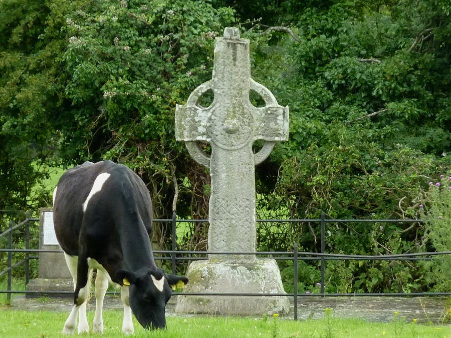 Killree High Cross